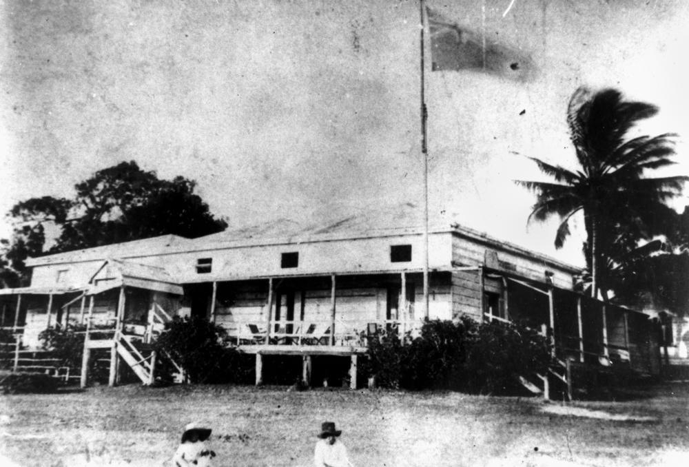 Government House, the home of Frank Jardine in Somerset, Cape York, Queensland. The home is a timber structure with external weatherboards and a plantation style iron roof. Some deck chairs are on the verandah and a flag is flying from the flag pole in front of the house. Two small children in the foreground may be Frank Jardine's.